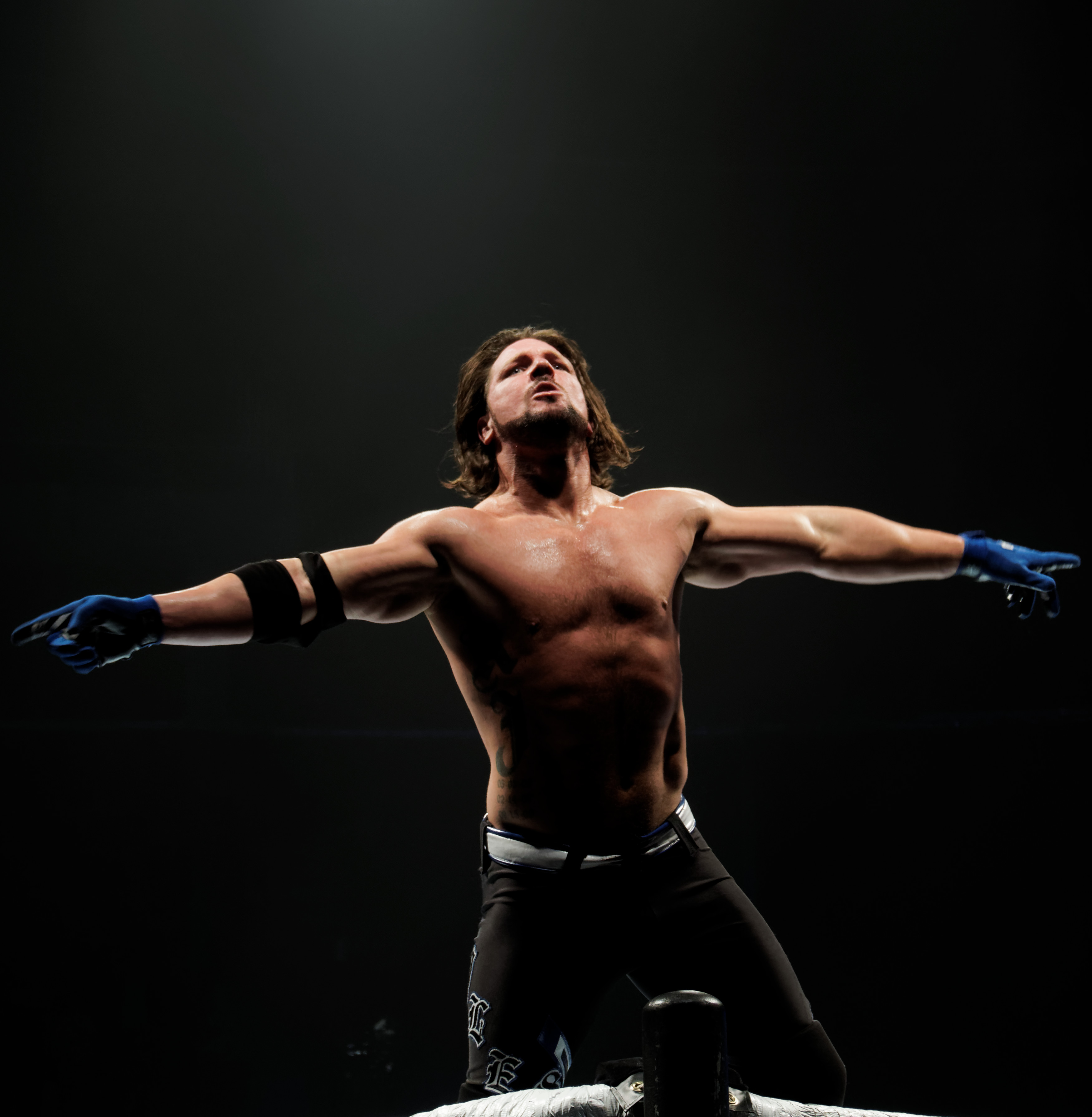 WWE Live WrestleMania Revenge AJ Styles def. Chris Jericho